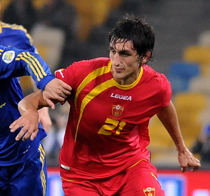 Montenegrin football player Stefan Savić during 2014 World Cup qualifier against Ukraine